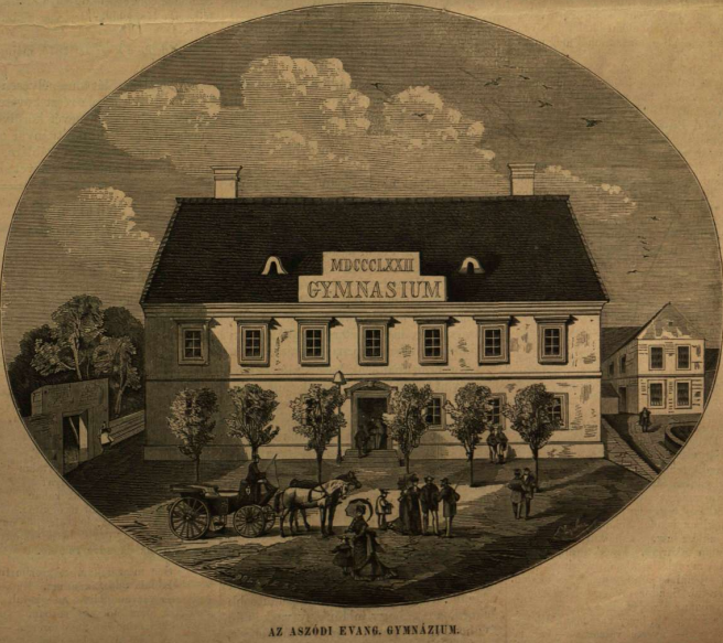 Grammar school in Aszód